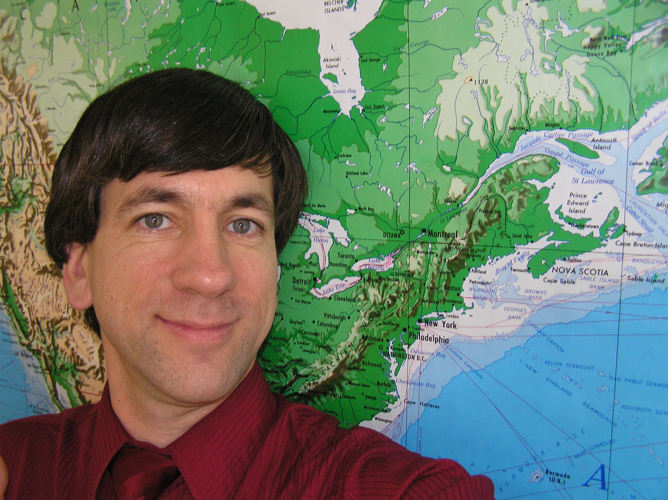 Dr. Joseph J. Kerski, a geographer active in education and the use of Geographic Information Systems.